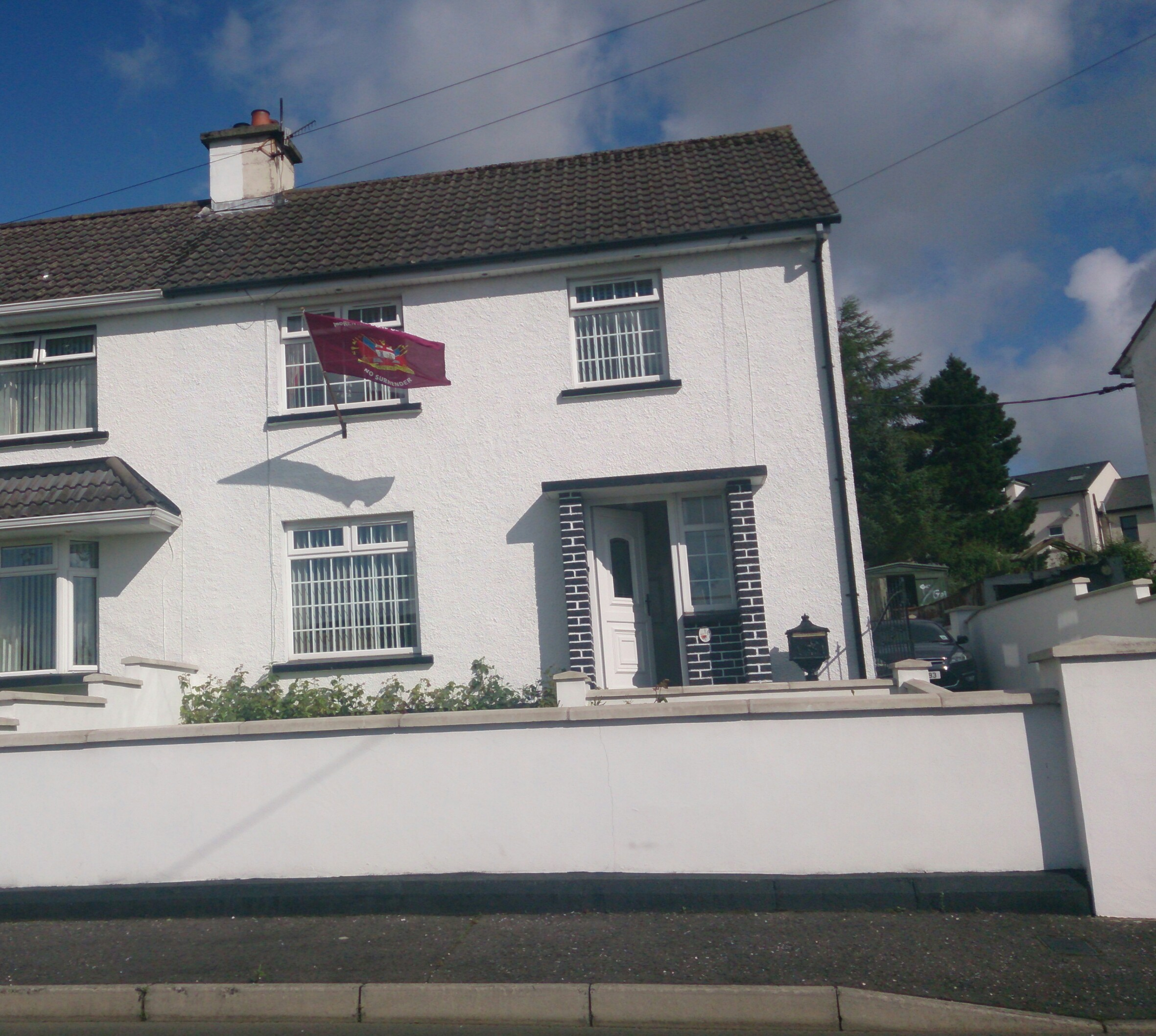 A house in Irwin Crescent, Claudy flying an Apprentice Boys of Derry flag.